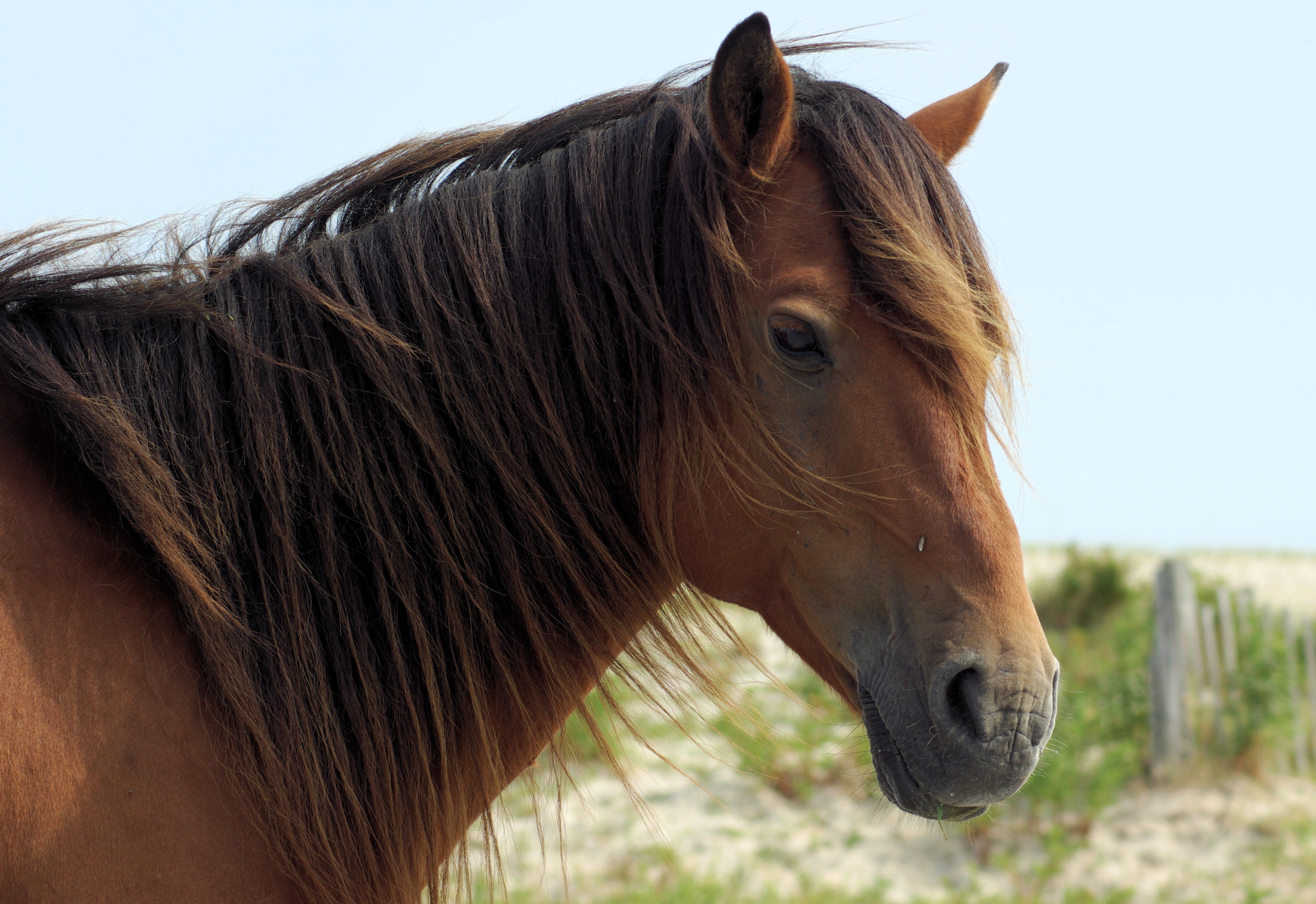 A wild pony stallion pauses to collect his mares before moving towards the dunes to escape flies.